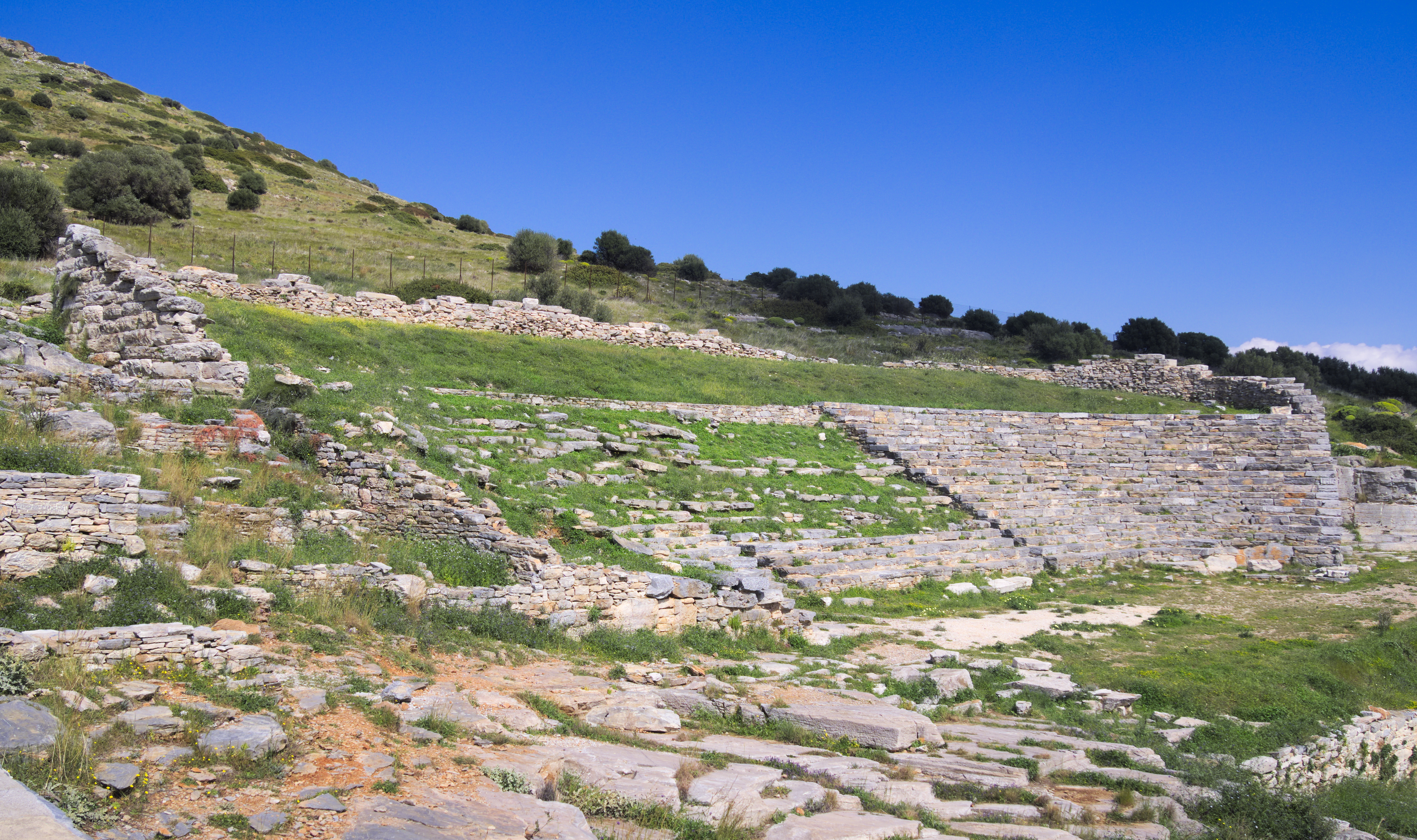 Ancient Greek theatre of Thorikos, as seen from the ore washery.